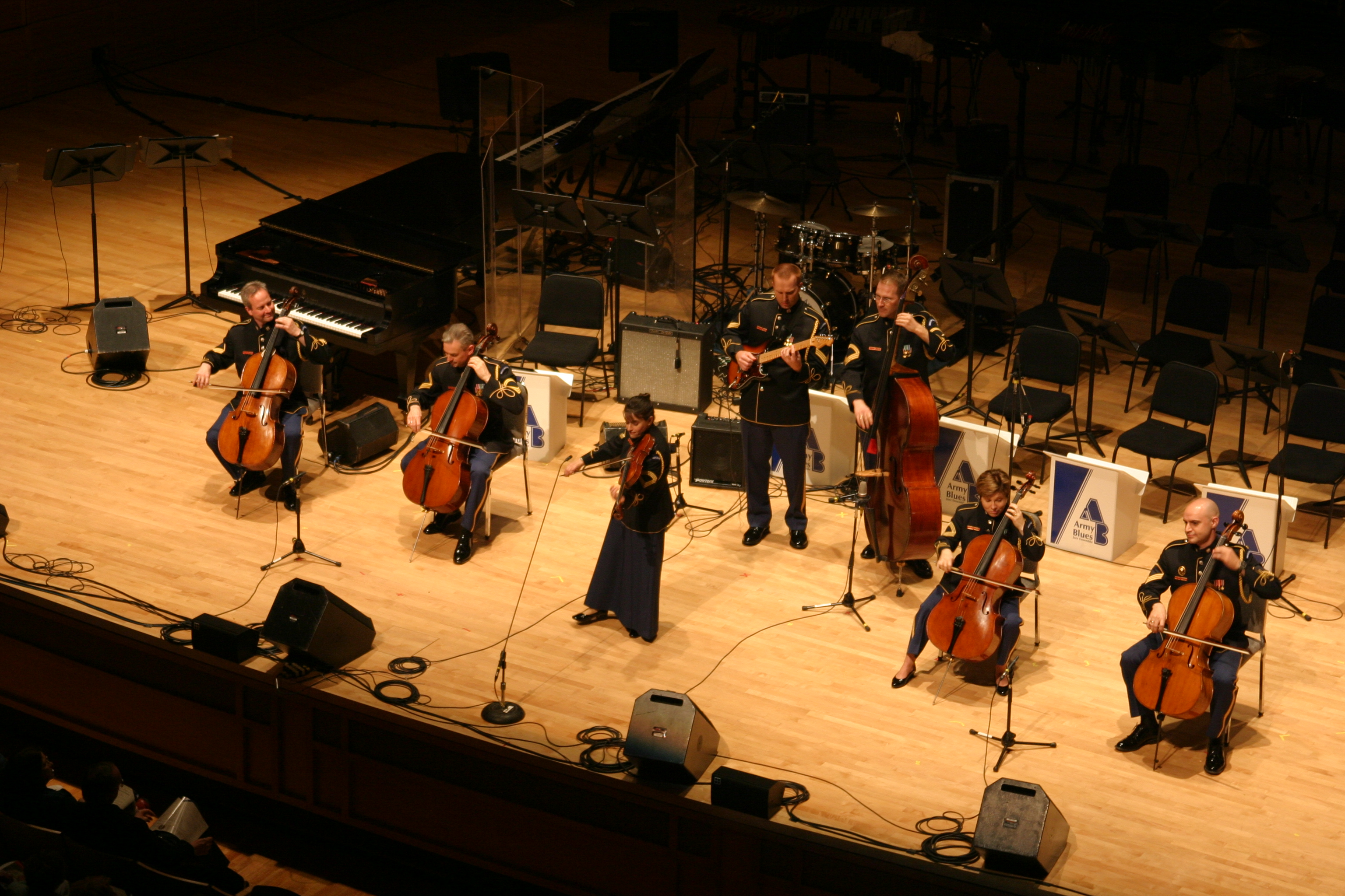 85th-Anniversary-37